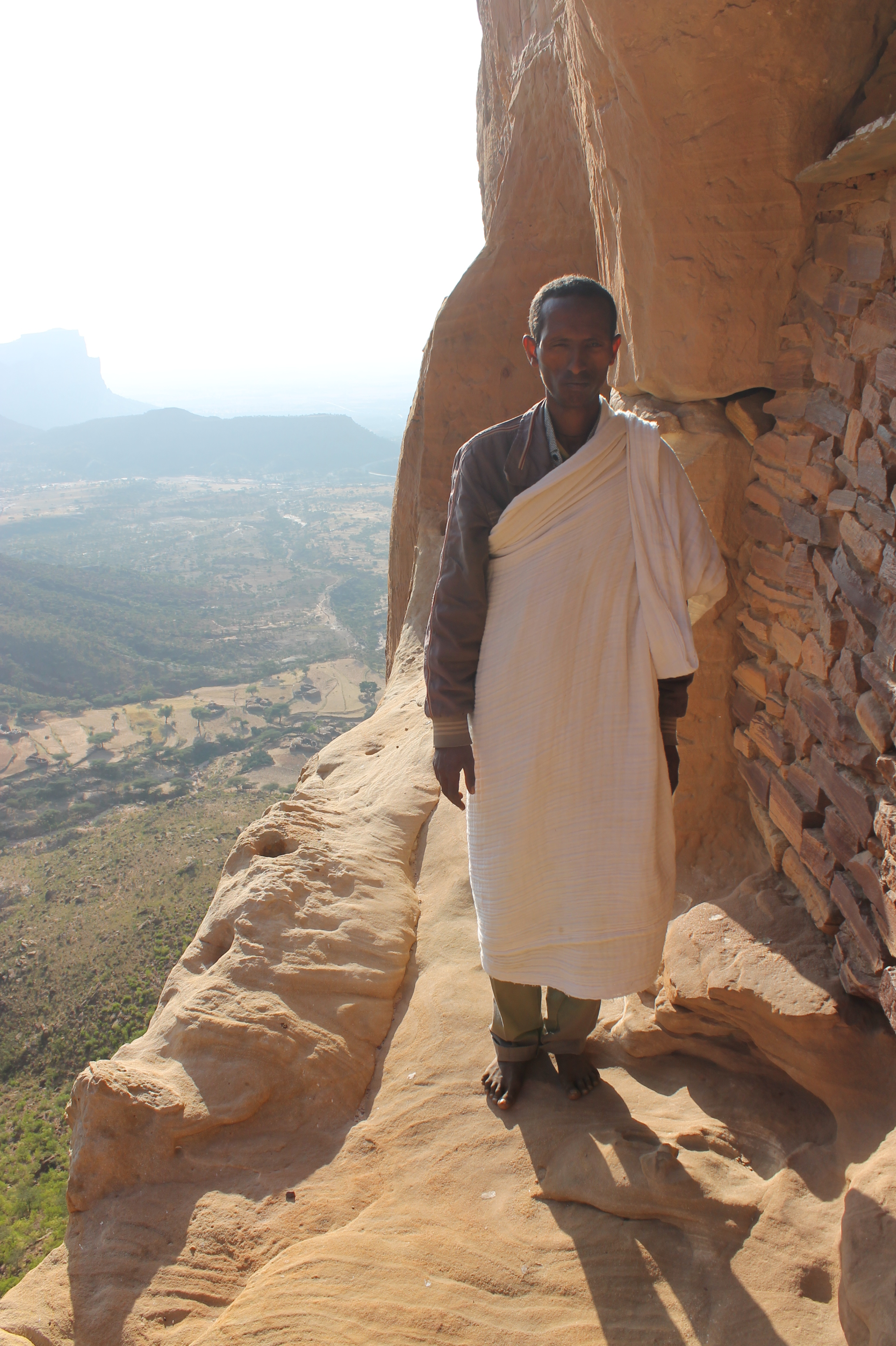 This is an image of "African people at work" from Ethiopia